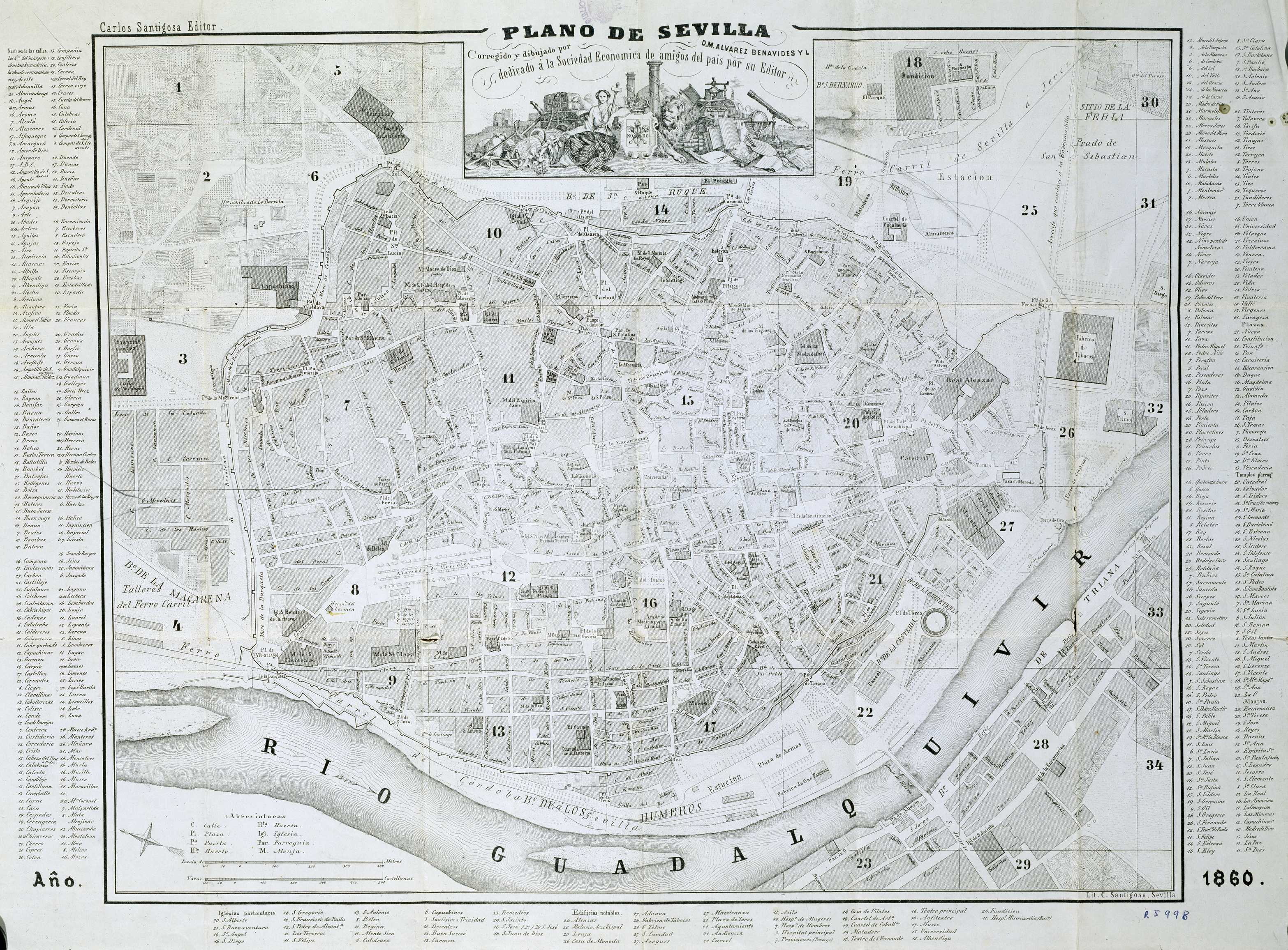 Incluye a ambos lados relación de calles y situación en el plano y en la parte inferior relación de edificios e iglesias más notables. Escala expresada también en varas castellanas Orientado con flecha con el N. al NO. del plano